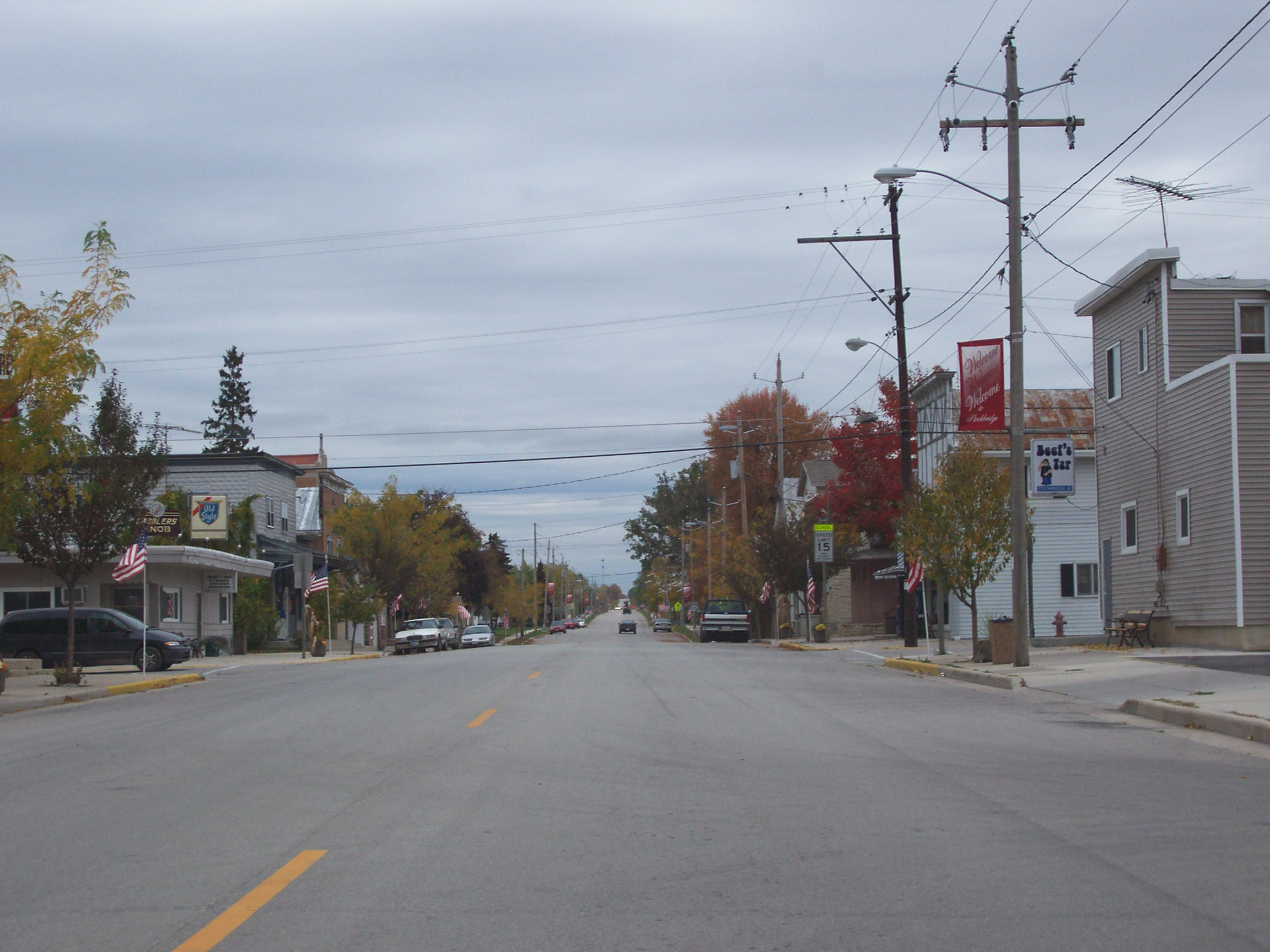 Downtown Stockbridge, Wisconsin in fall, on Highway 55 (Wisconsin) This image was taken on October 9, 2006 by User:Royalbroil. Category:Images of Wisconsin highways